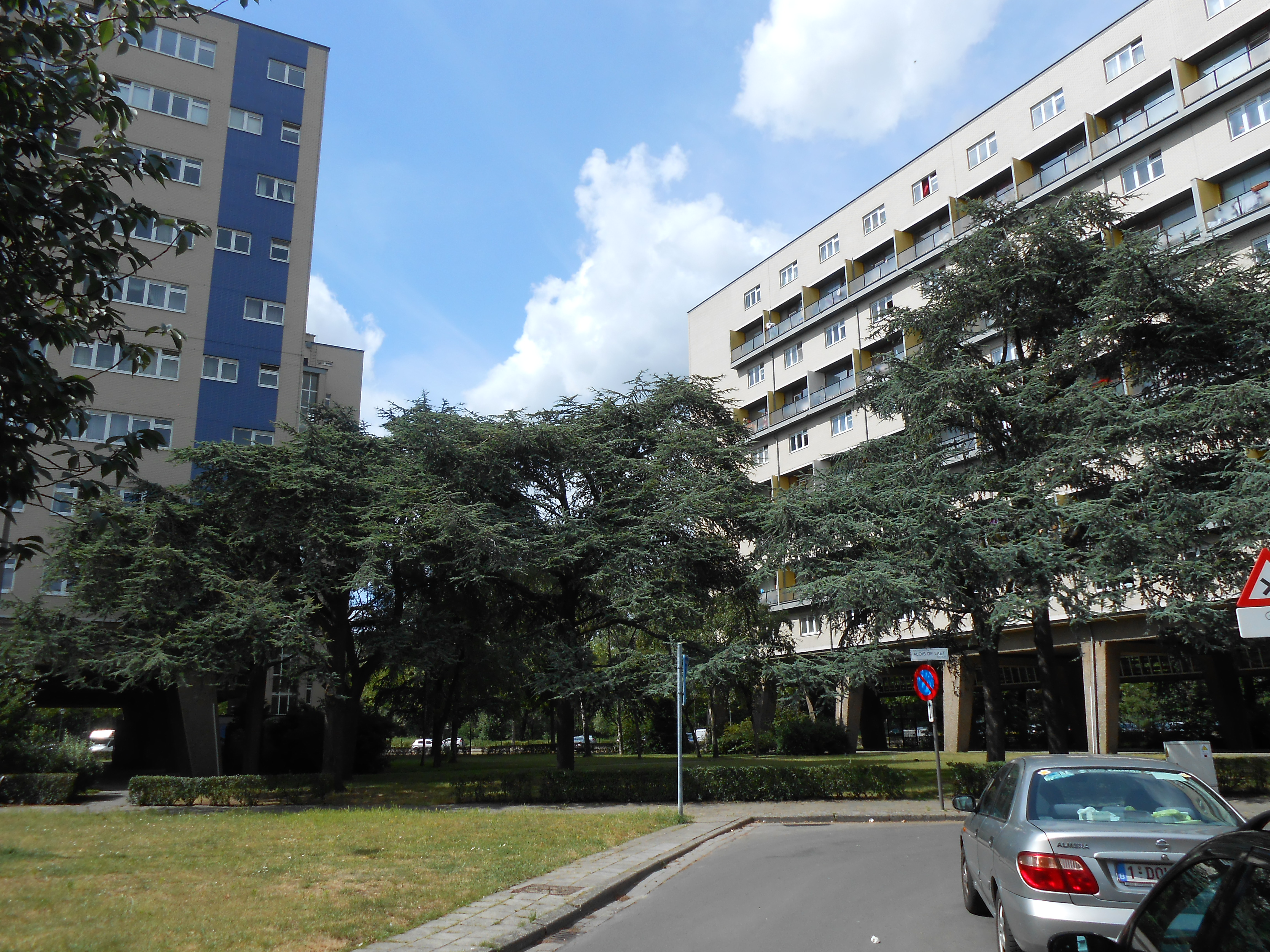 Wooneenheid Kiel, a social housing project from the 1950’s.